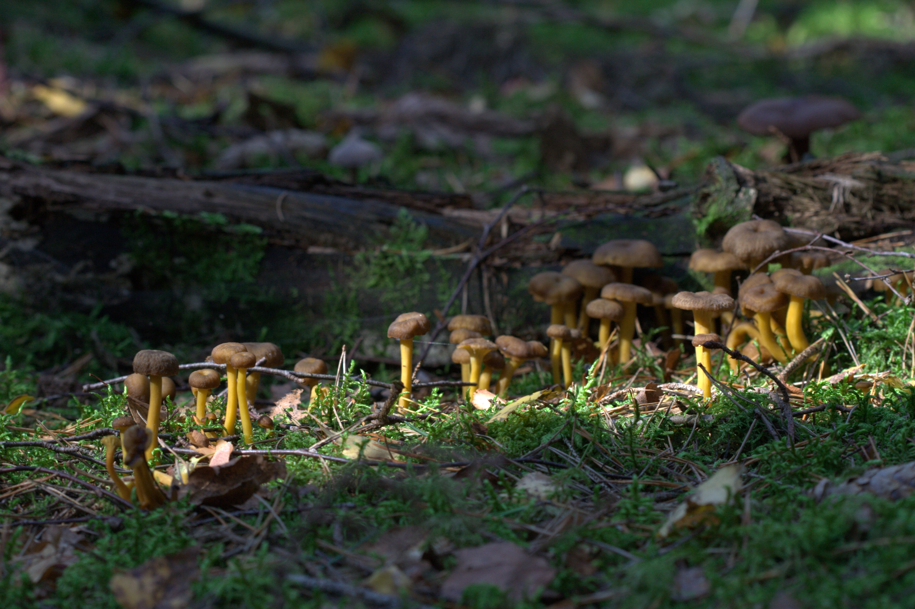 Group of Funnel Chanterelle (Cantharellus tubaeformis) growing in a forest in the west parts of Sweden. The date in the filname is incorrect, I got the numbers mixed up. The photo was taken 2008-09-14.